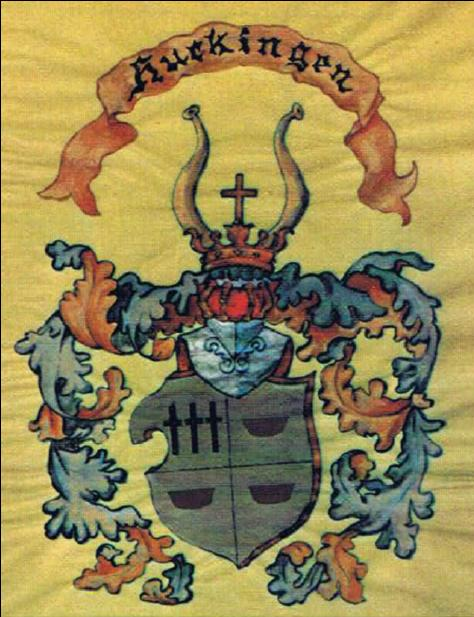 Photograph of Page 1 of the Chronicle of the Catholic Congregation Duisburg-Huckingen; emblem by Fritz Brockerhoff